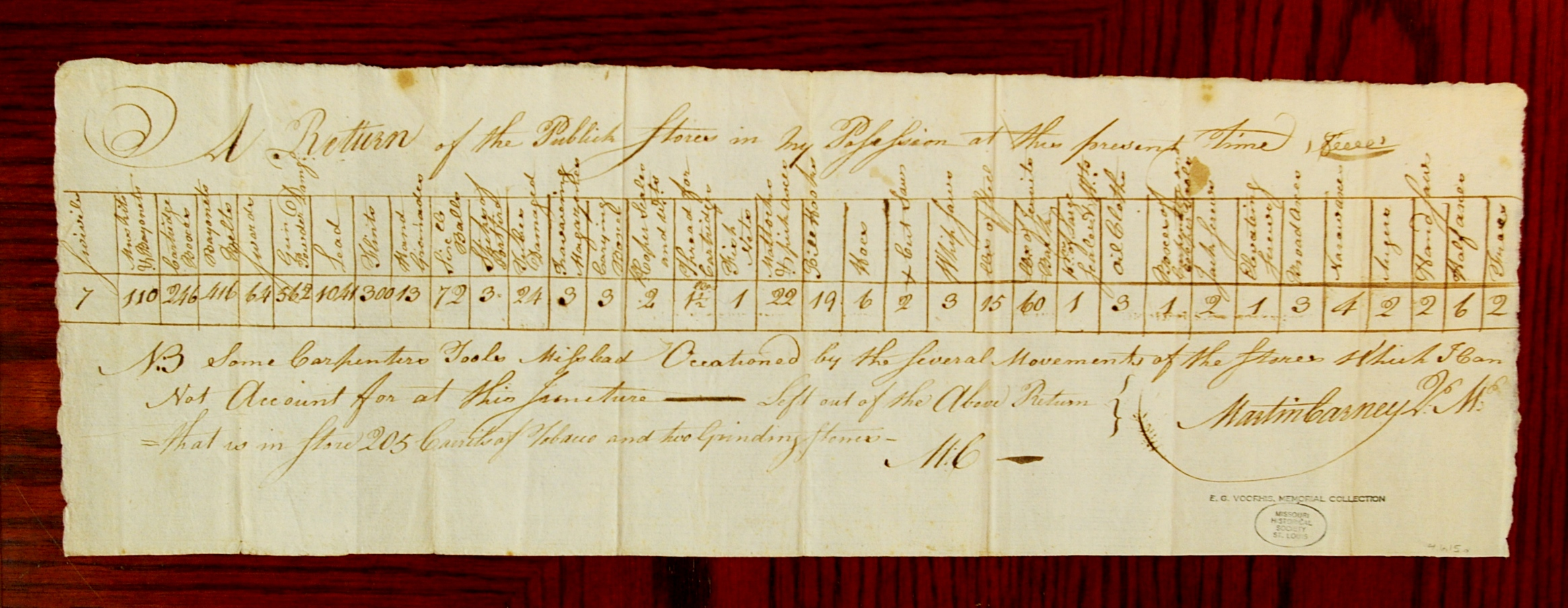 Title: Return of the public stores [at Fort Jefferson], signed Martin Carney, approximately February 16, 1781